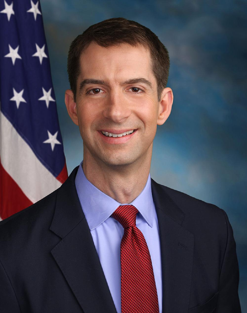 Tom Cotton official photo, 114th Congress